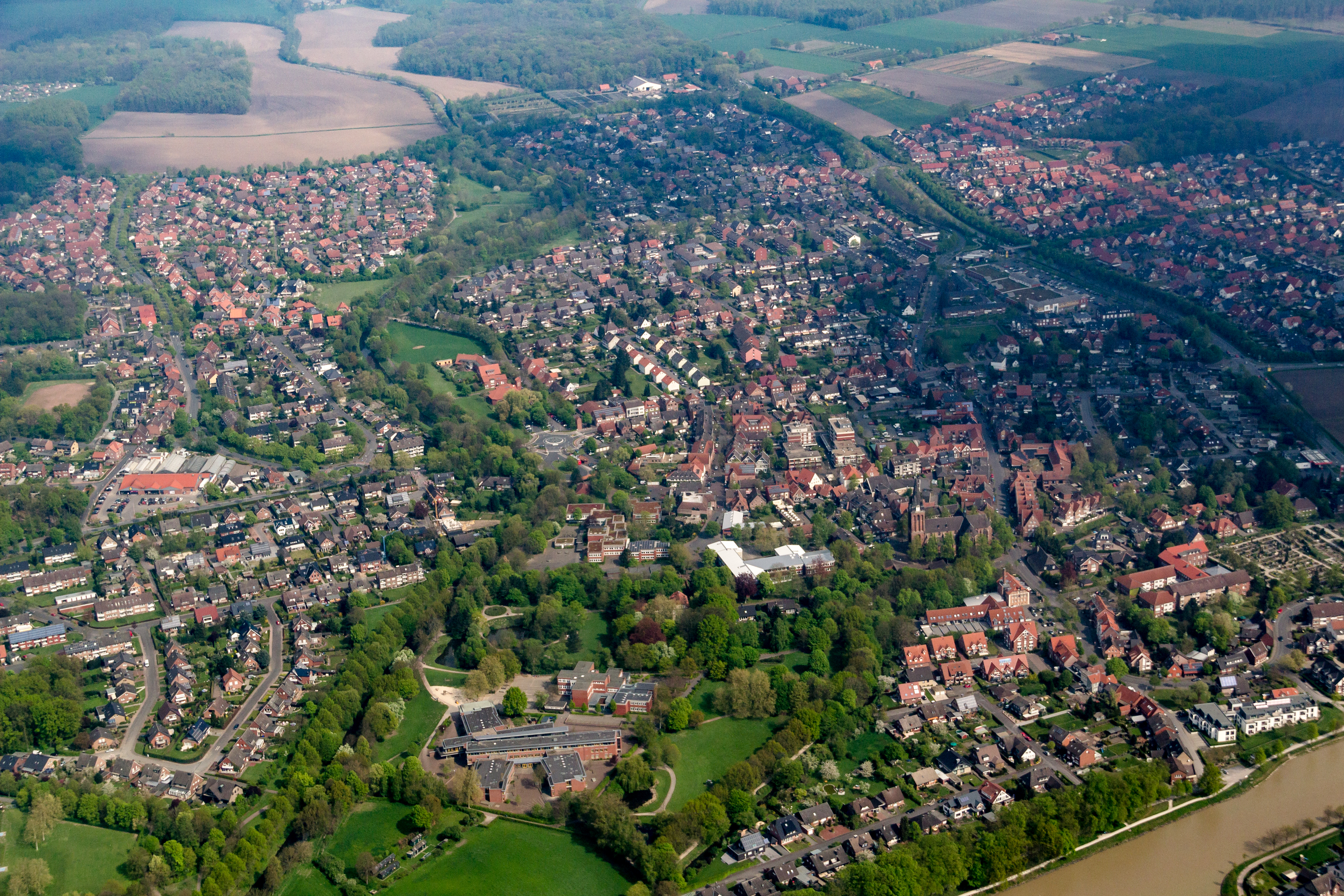 Senden, North Rhine-Westphalia, Germany